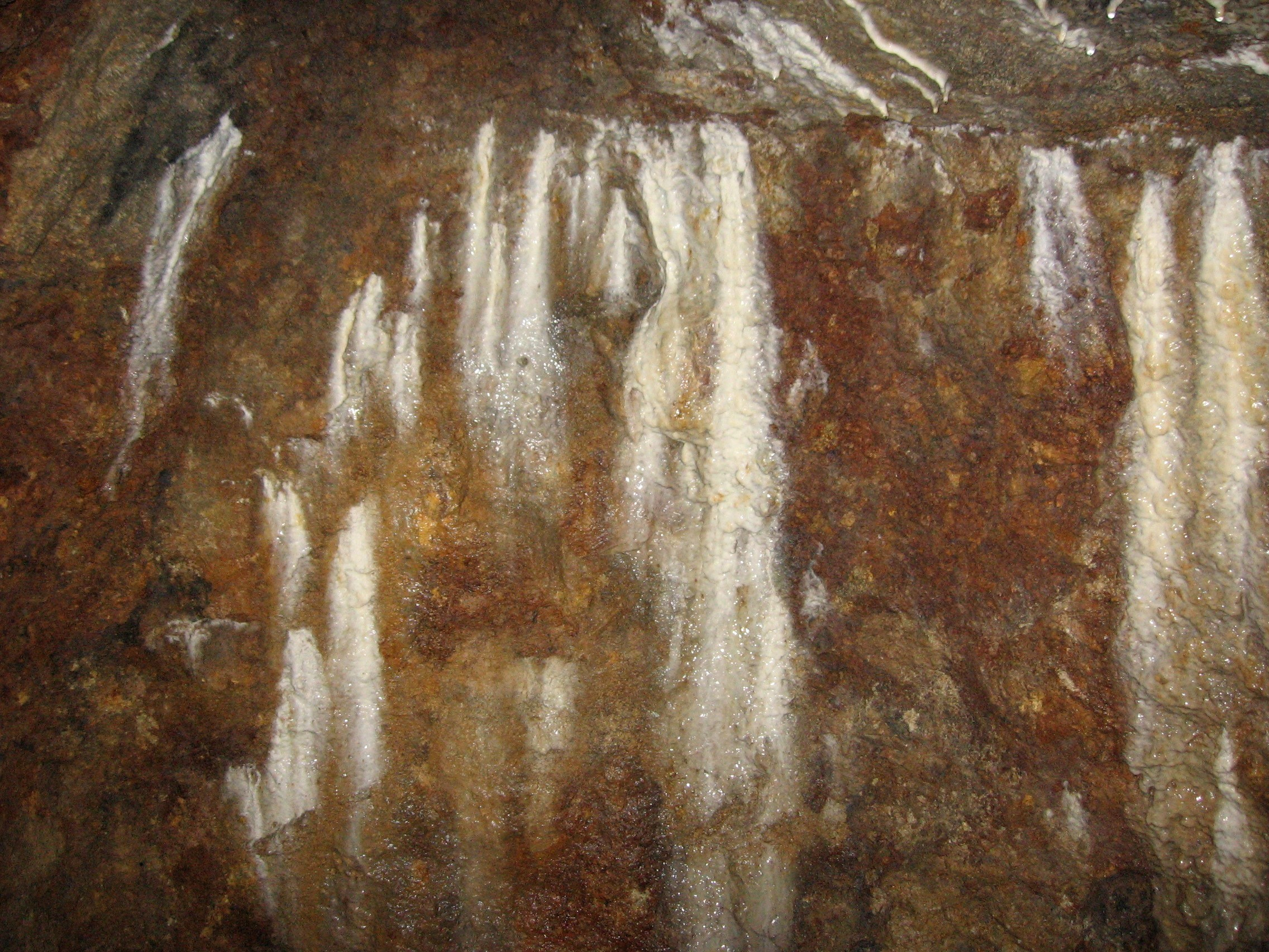 Calc sinter, solid calcium carbonate deposit, as found as coating or even thick layer in old aqueducts, old walls and old concrete, in old waterpipes and other waterfacilities.